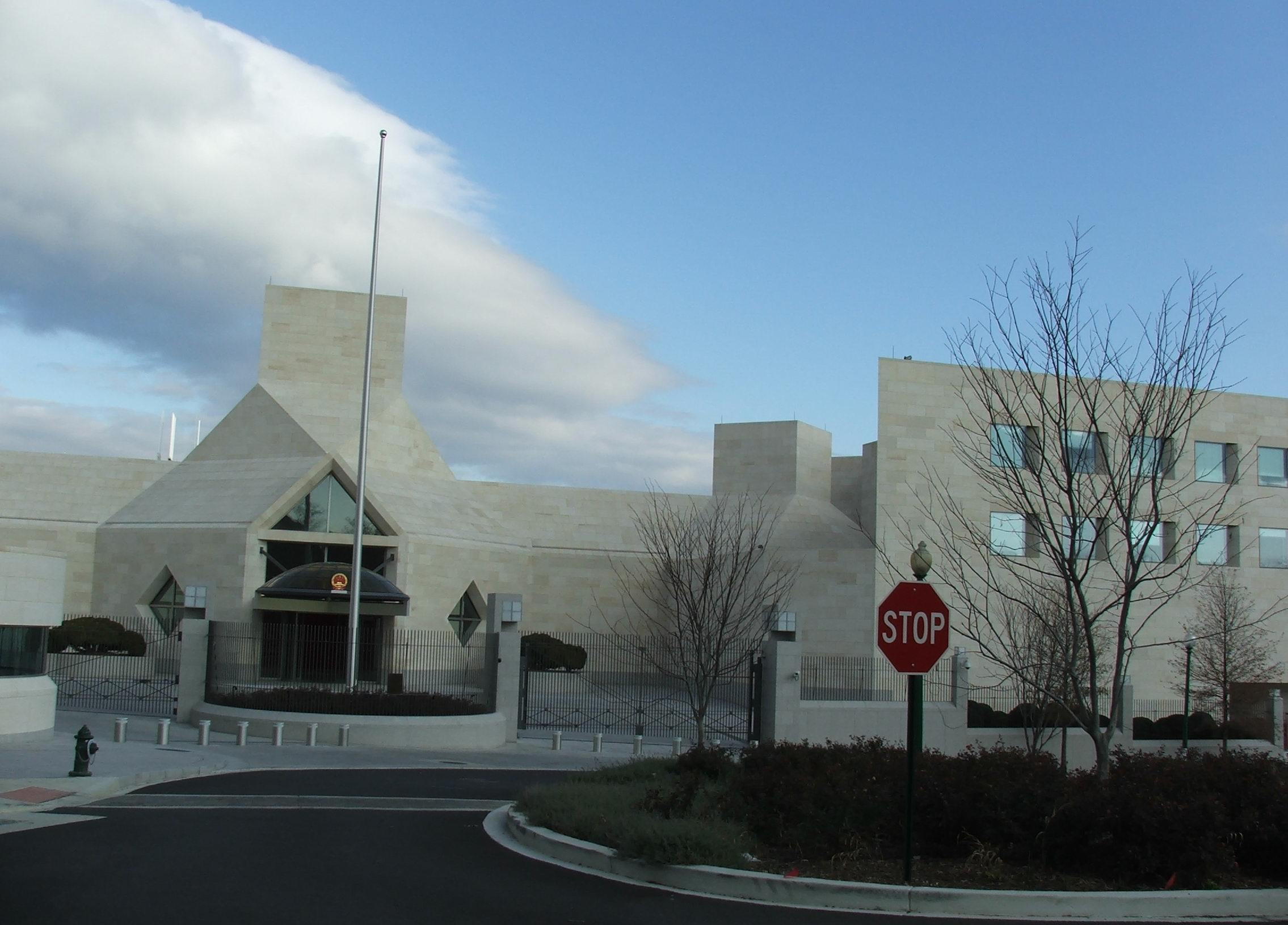 New embassy of the P.R. of China in Washington, D.C. - United States.